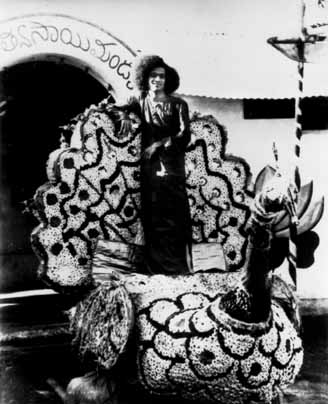 Sathya Sai Baba:Indian spiritual leader, philanthropist and guru Sathya Sai Baba standing on a float in 1946.